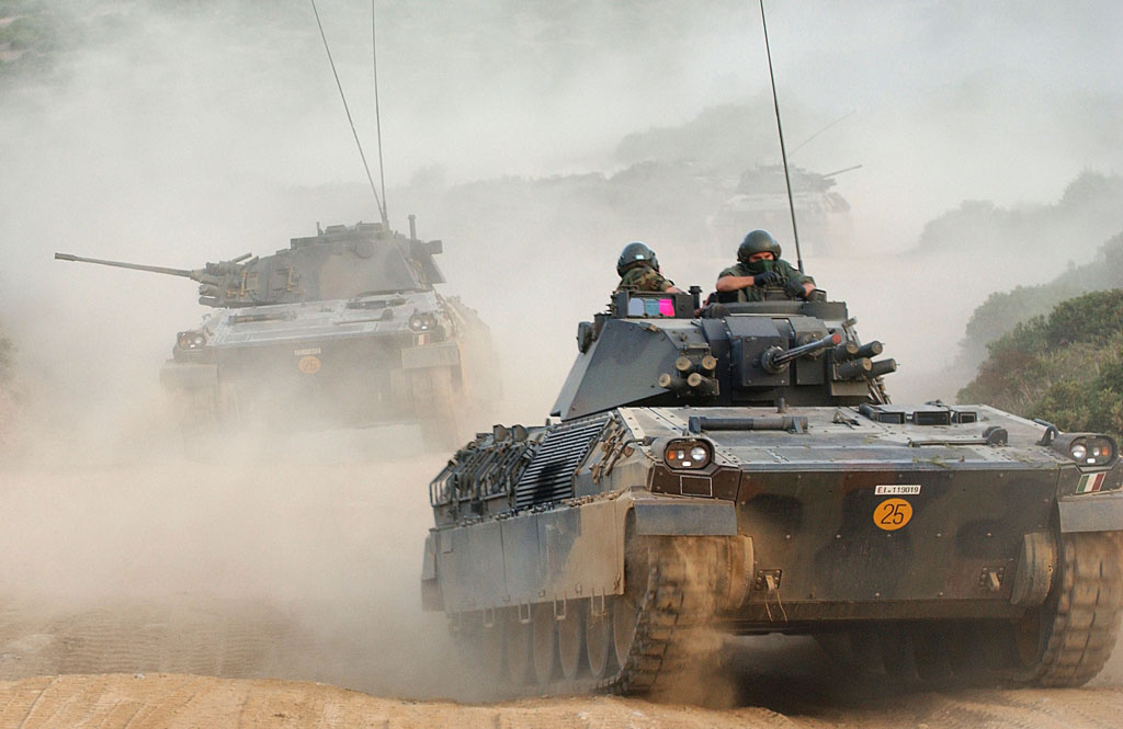 Dardo IFV; Italian Army. Downloaded from the official homepage of the Italian Army.